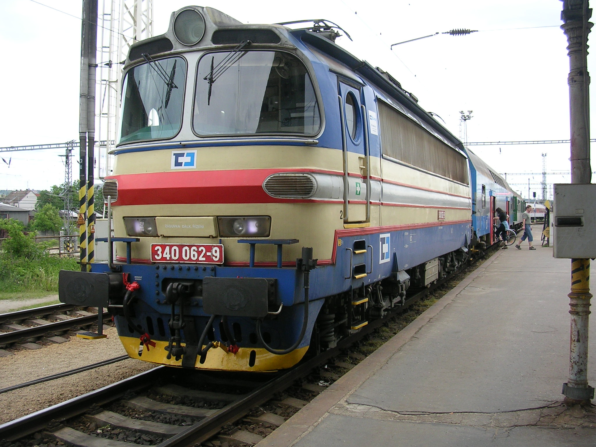 České Budějovice, the Czech Republic. A train.